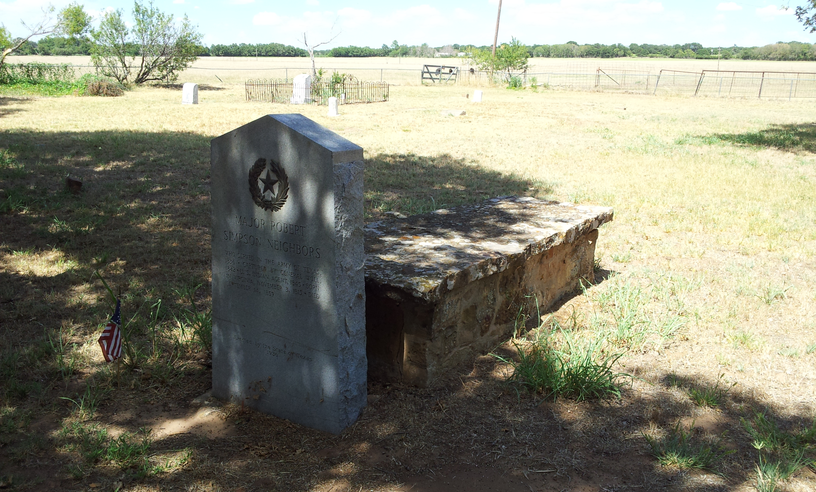 Tomb and marker of Maj. Robert S.Neighbors is located in Ft. Belknap Cemetary, new Newcastle, TX USA.